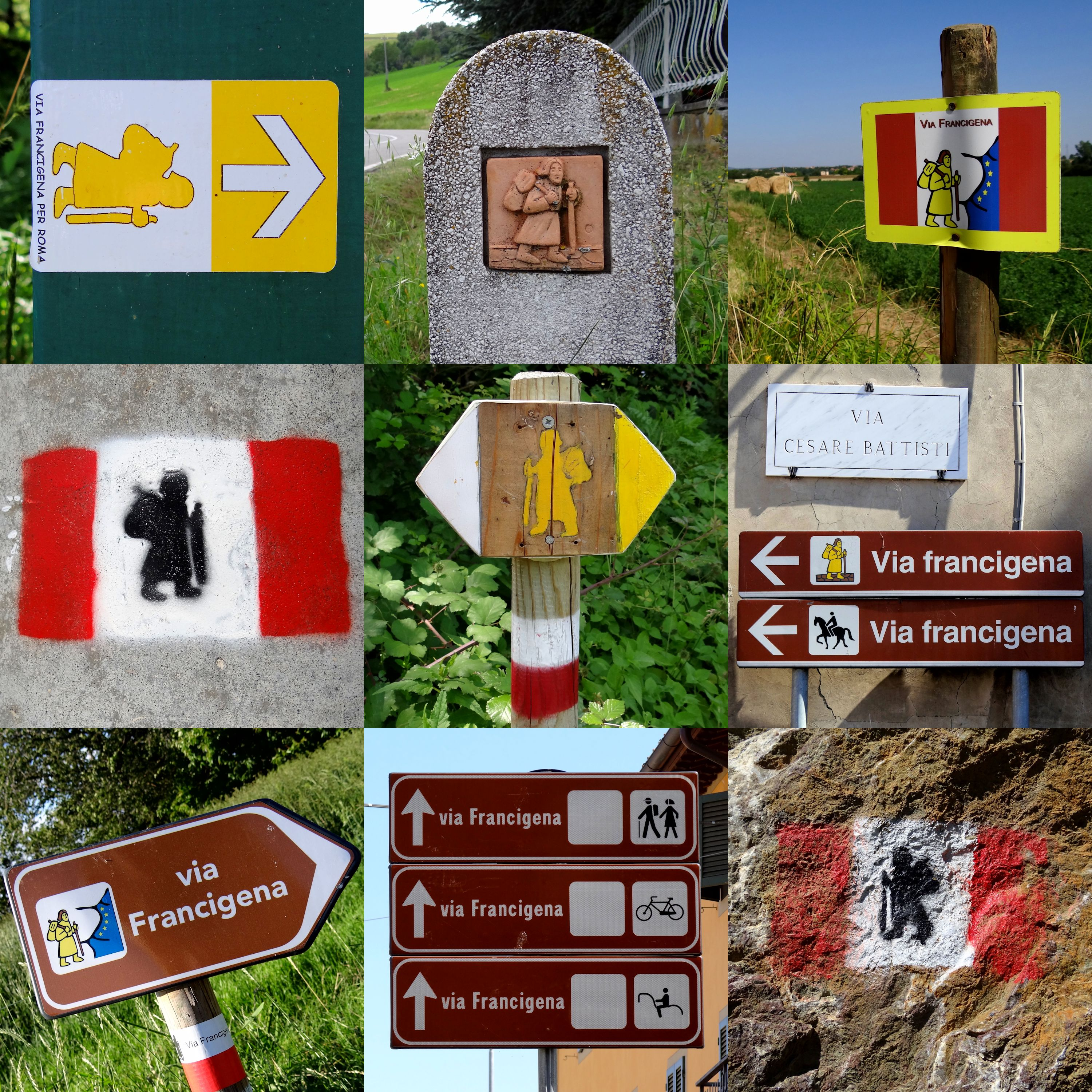 A collection of signposts showing pilgrims where to go through Italy on the Via Francigena. Different regions use different designs. In some places there is post a yellow arrow and a white arrow, where yellow is the direction to Santiago de Compostela and white is the direction to Rome. Left to right, these signposts were photographed in/near: Top row: Berceto, Caselle (Parma), Gracciano Middle row: Medesano, Filetto, Aquapendente Bottom row: Cella, Galleno, Rocca d'Orcia